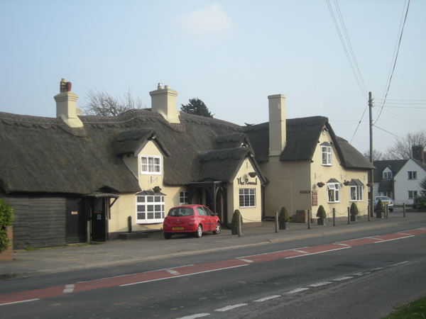 'The Pound' beside the A49